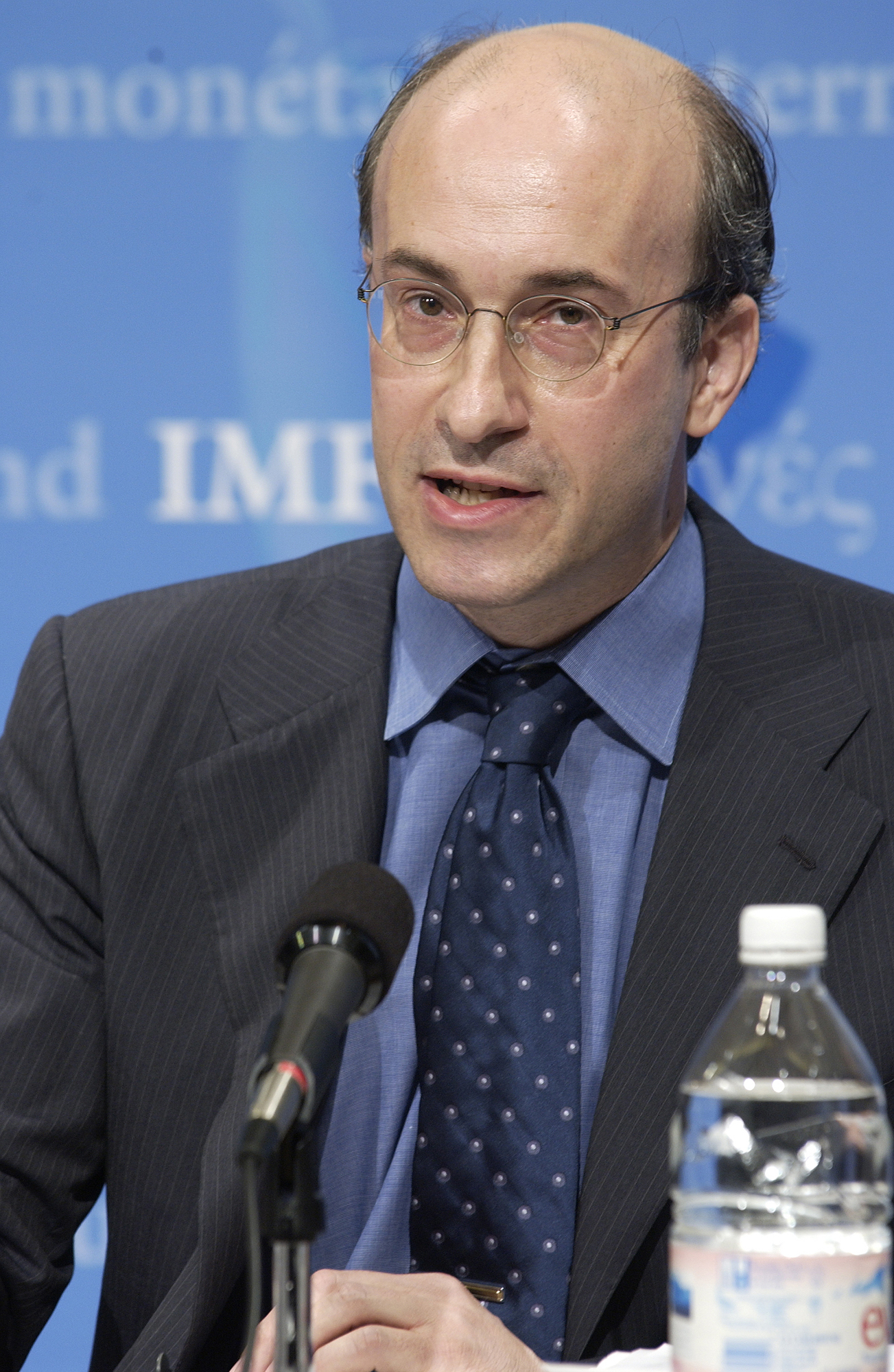 Economic Counsellor Kenneth Rogoff